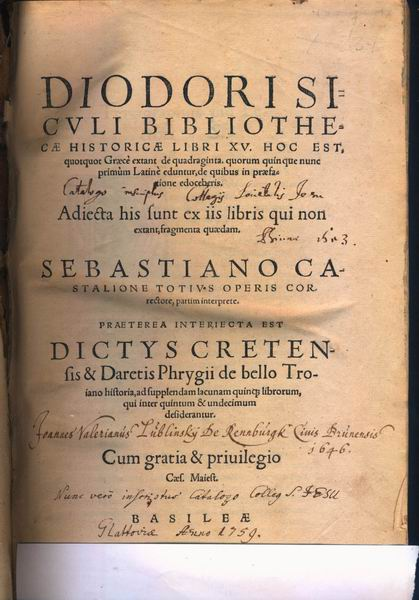 The title page of Bibliotheca historicaby Diodorus Siculus published in 1559 in Basel. (Cathalogue info) Diodórosz Bibliothékéjének 1559-es, Bázeli kiadása.